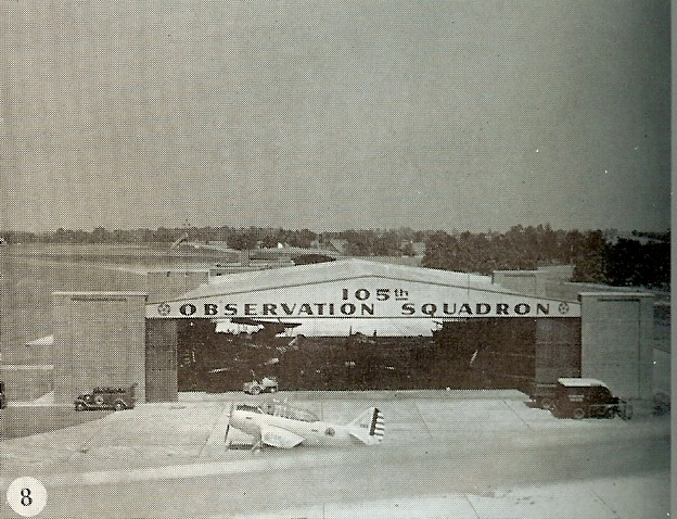 105th Observation Squadron, Tennessee National Guard hangar at Berry Field. Aircraft parked in front of the hangar is an O-47 (not O-52).